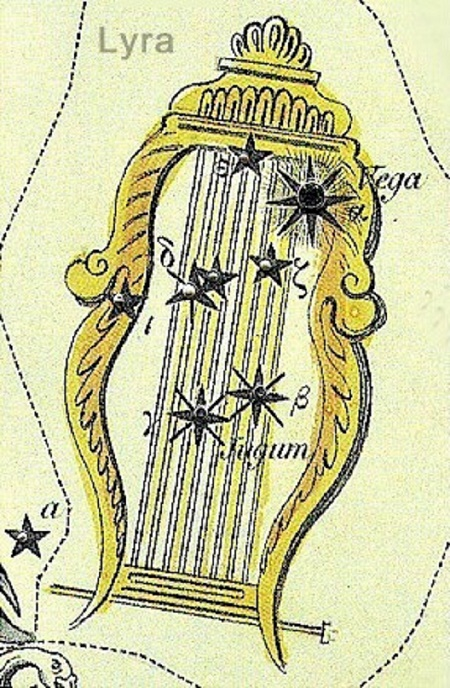 Lyra Constellation engraved by Sydney Hall